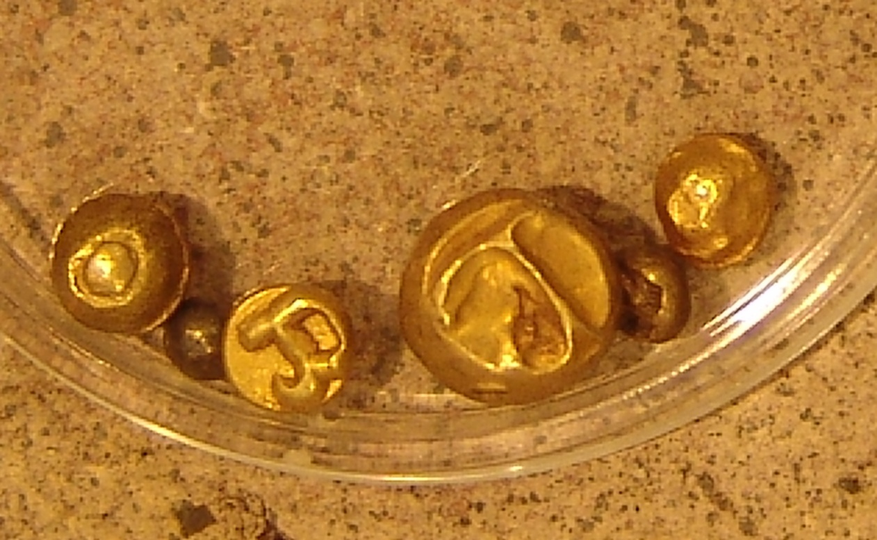 Photographed by William Harper at the Manila Mint Museum, Manila, Philippines in May 2005